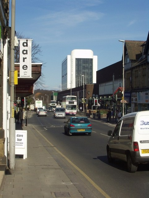 Traffic on Otley Road, Headingley, Leeds, West Yorkshire, England